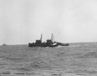 USS Pirate (AM-275) and USS Pledge (AM-277) Admirable class minesweepers sail near the USS Pivot. The photo was taken from the USS Pivot (AM-276)